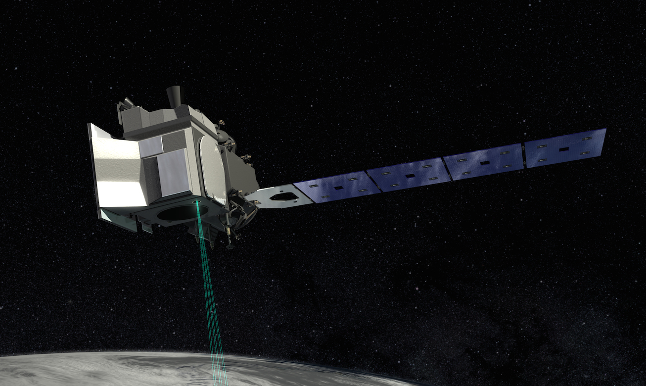 An artist's rendition of the ICESat-2 satellite